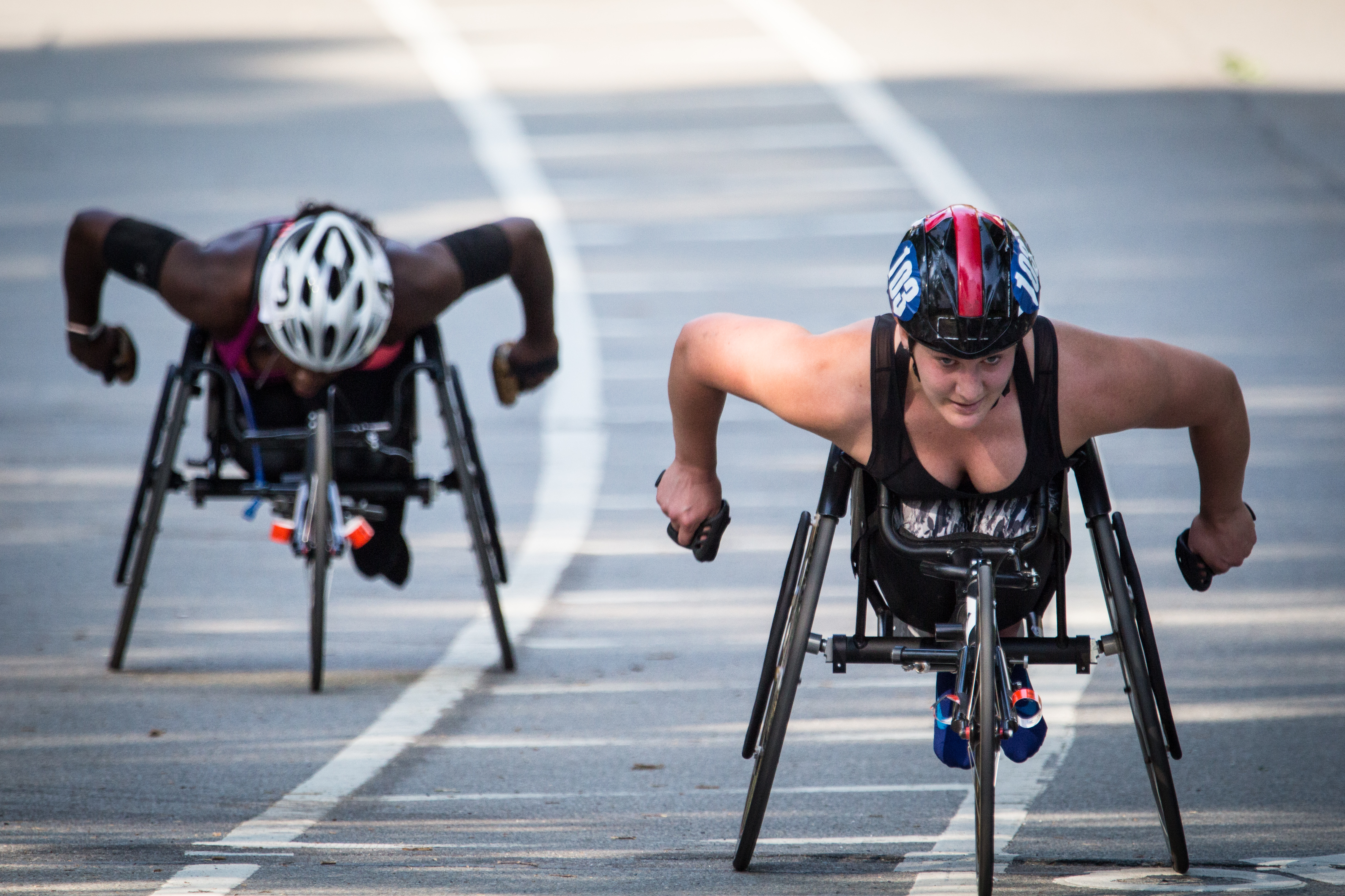 Elite women – NYRR Mini 10K 2018